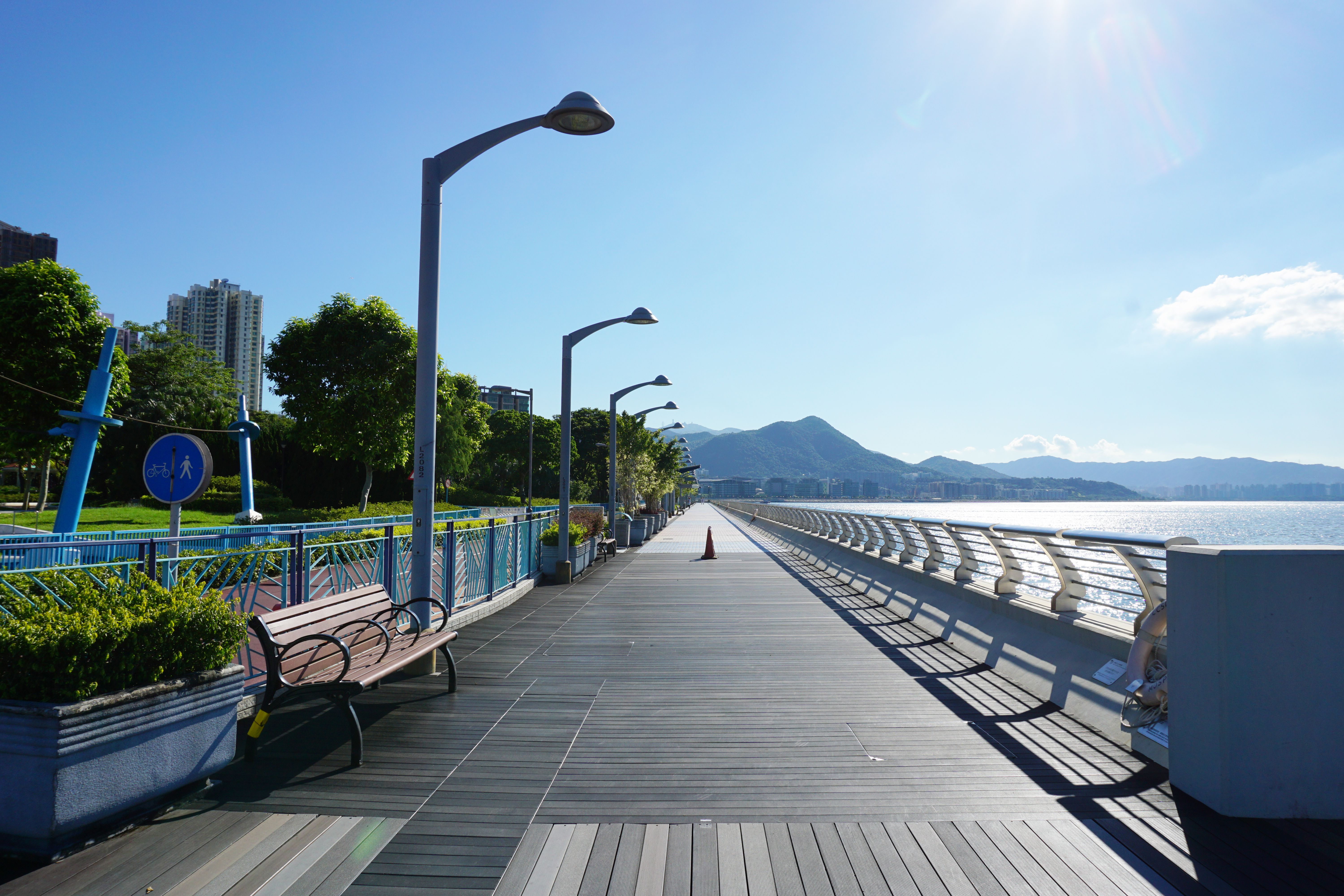 Waterfront Promenade in Ma On Shan, Hong Kong.